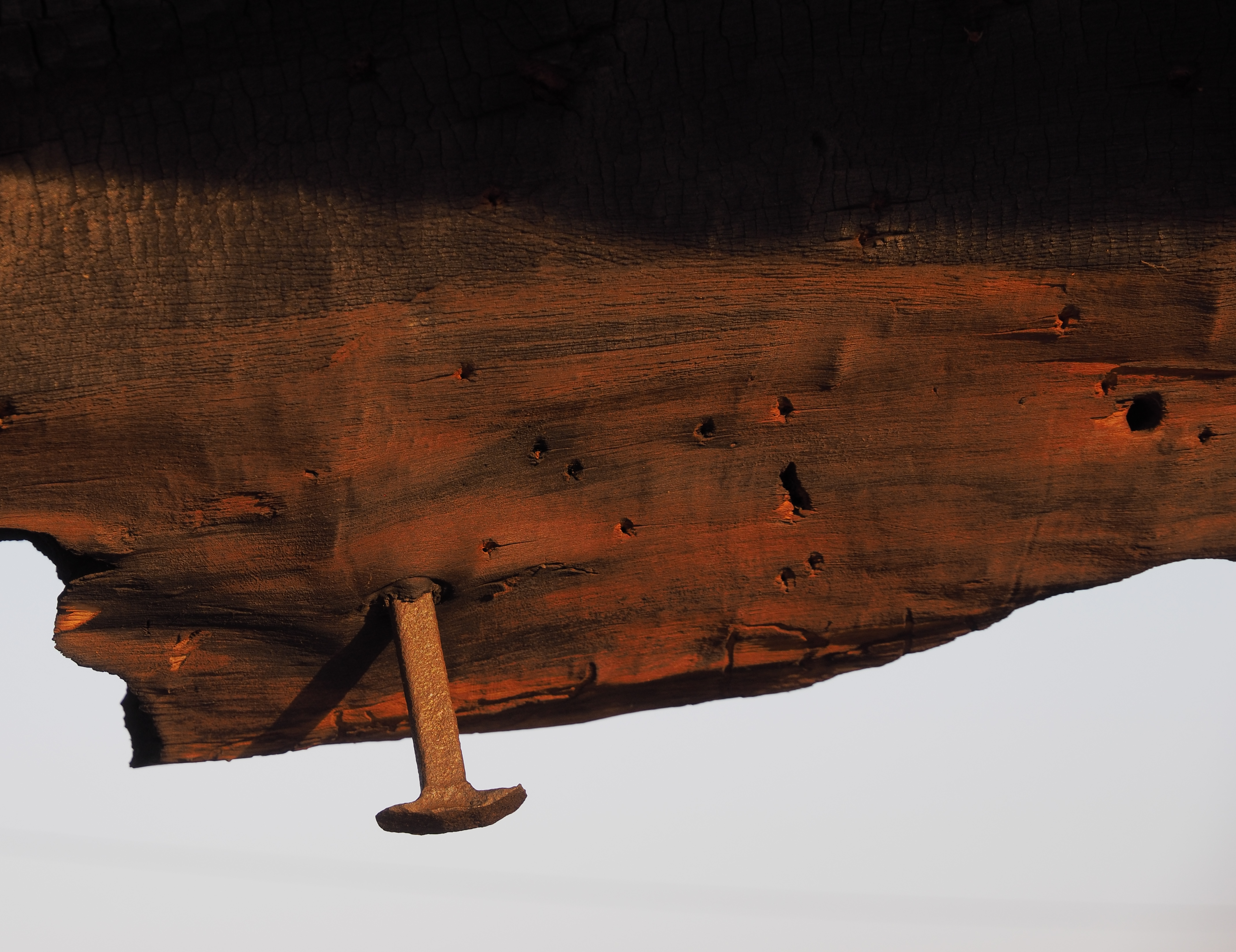 Tree of horror, where Croat Ustašas were killing Serbs with hanging them and butchering them on the tree. Traces are still visible. Српски (ћирилица): Топола ужаса код Доње Градине. Видни клинови и рупе ексера и клинова који су остали од убијања Срба од стране Усташа за време другог светског рата. Градина - спомен подручје, Козарска Дубица ID добра: NKD405 This image was uploaded as part of Trace of Soul 2017. This photograph was taken with a Olympus E-M1.